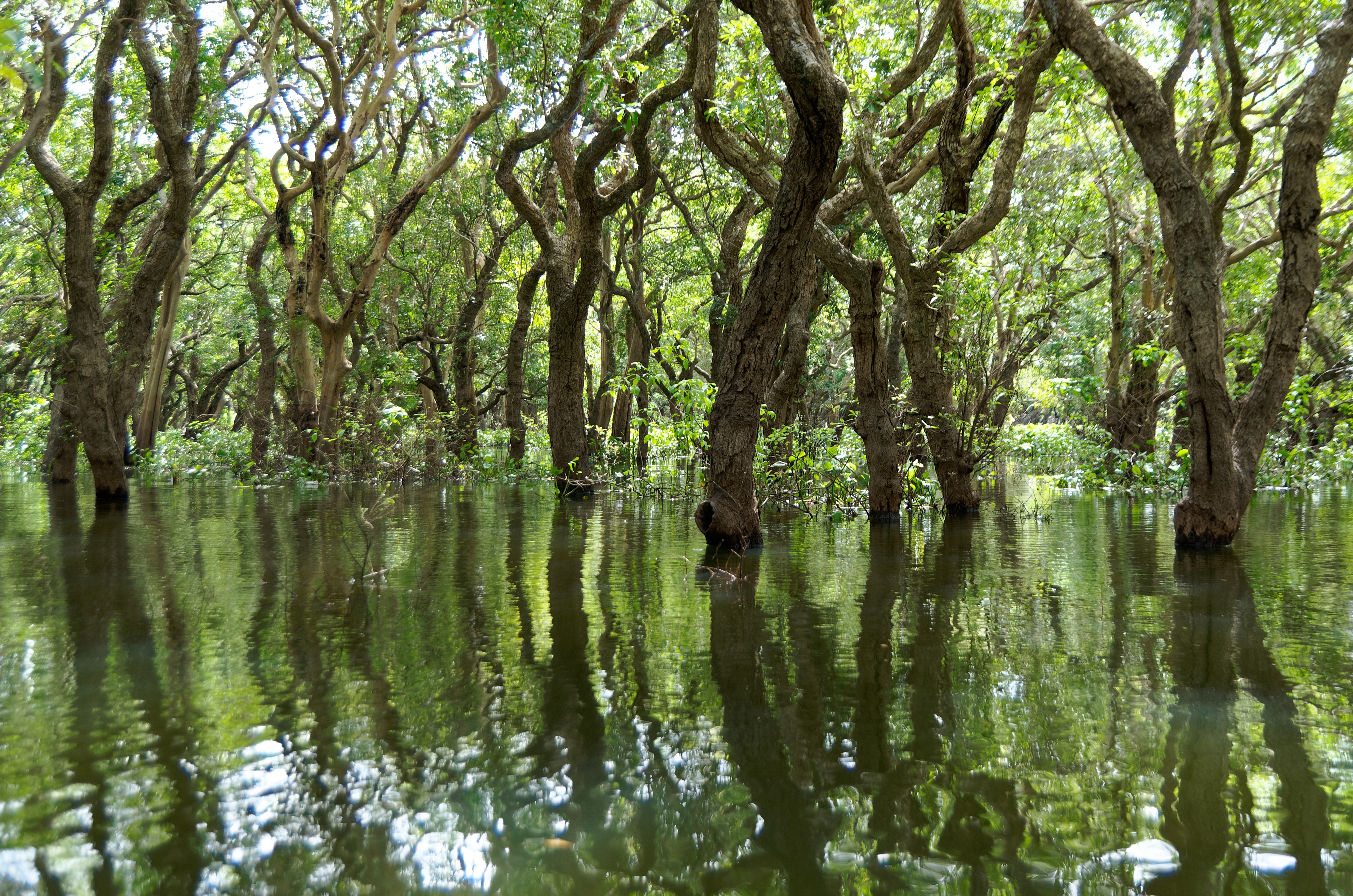 The mangrove forest on the edge of Tonle Sap Lake, Kampong Phlouk village, Cambodia